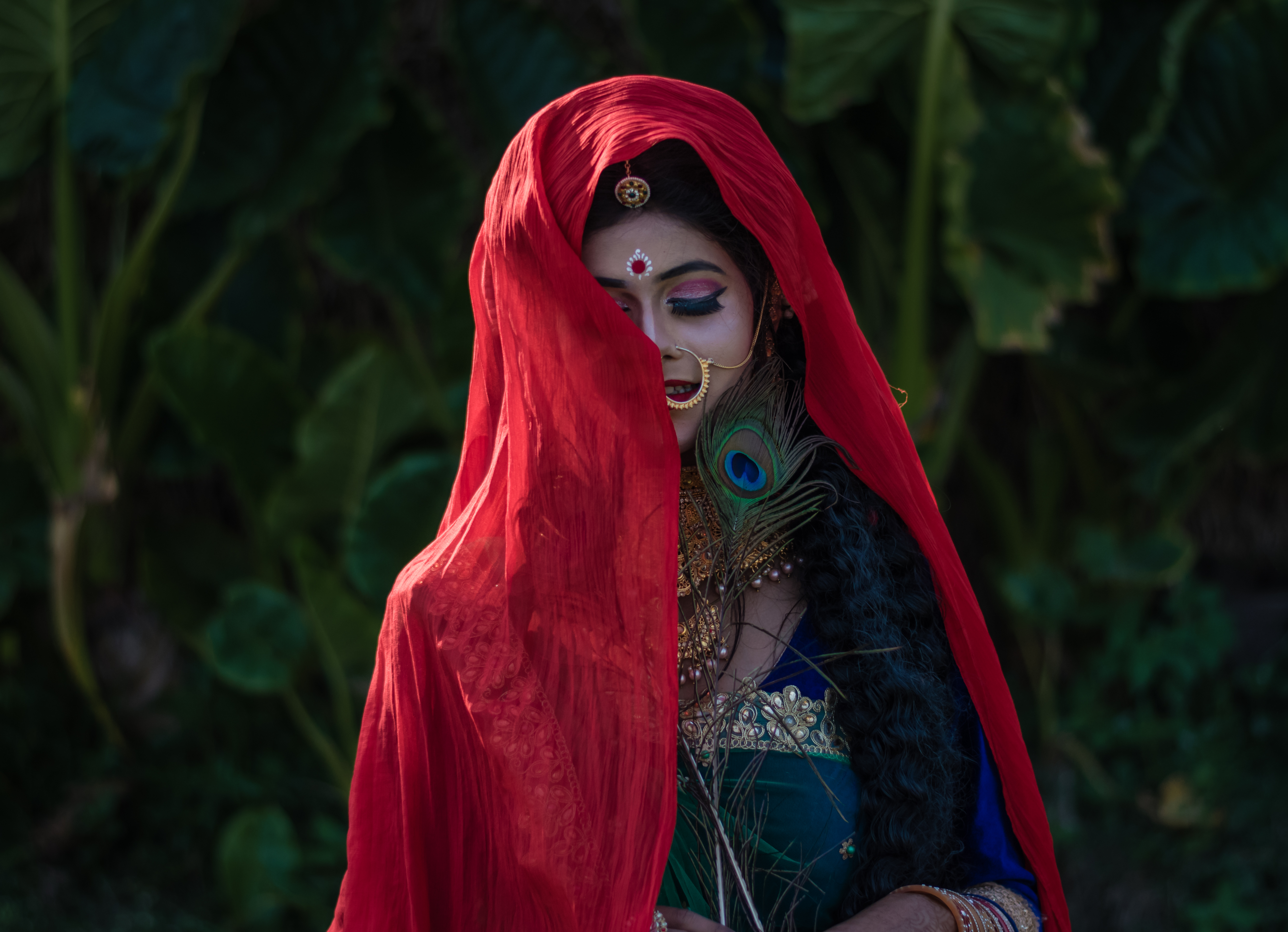 Radha is a goddess whose role is limited to that of a favoured mistress of Krisna. This photo has been taken in the country: India